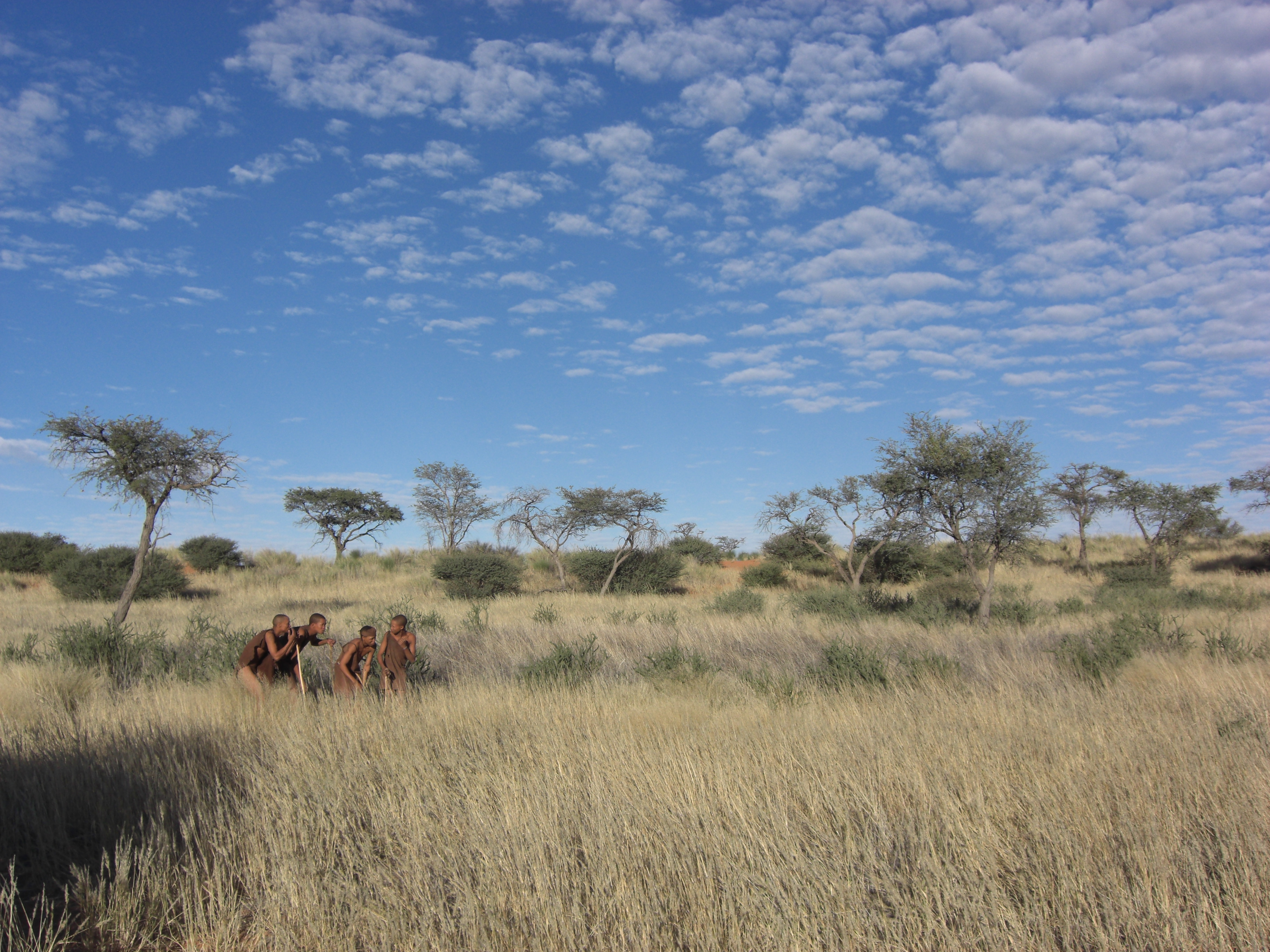 Bushmen showing hunting techniques